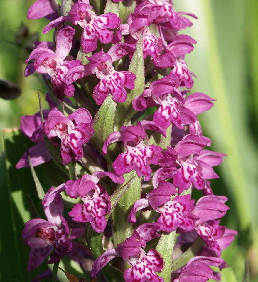 Dactylorhiza majalis, Hohenlohe, Germany